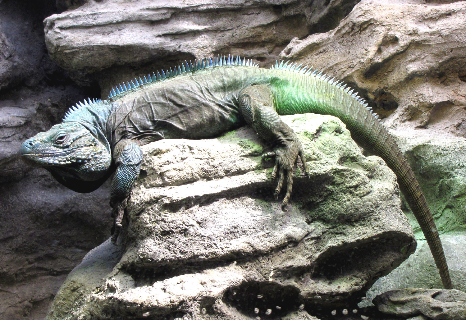 Grand Cayman blue iguana (Cyclura lewisi) on rocks